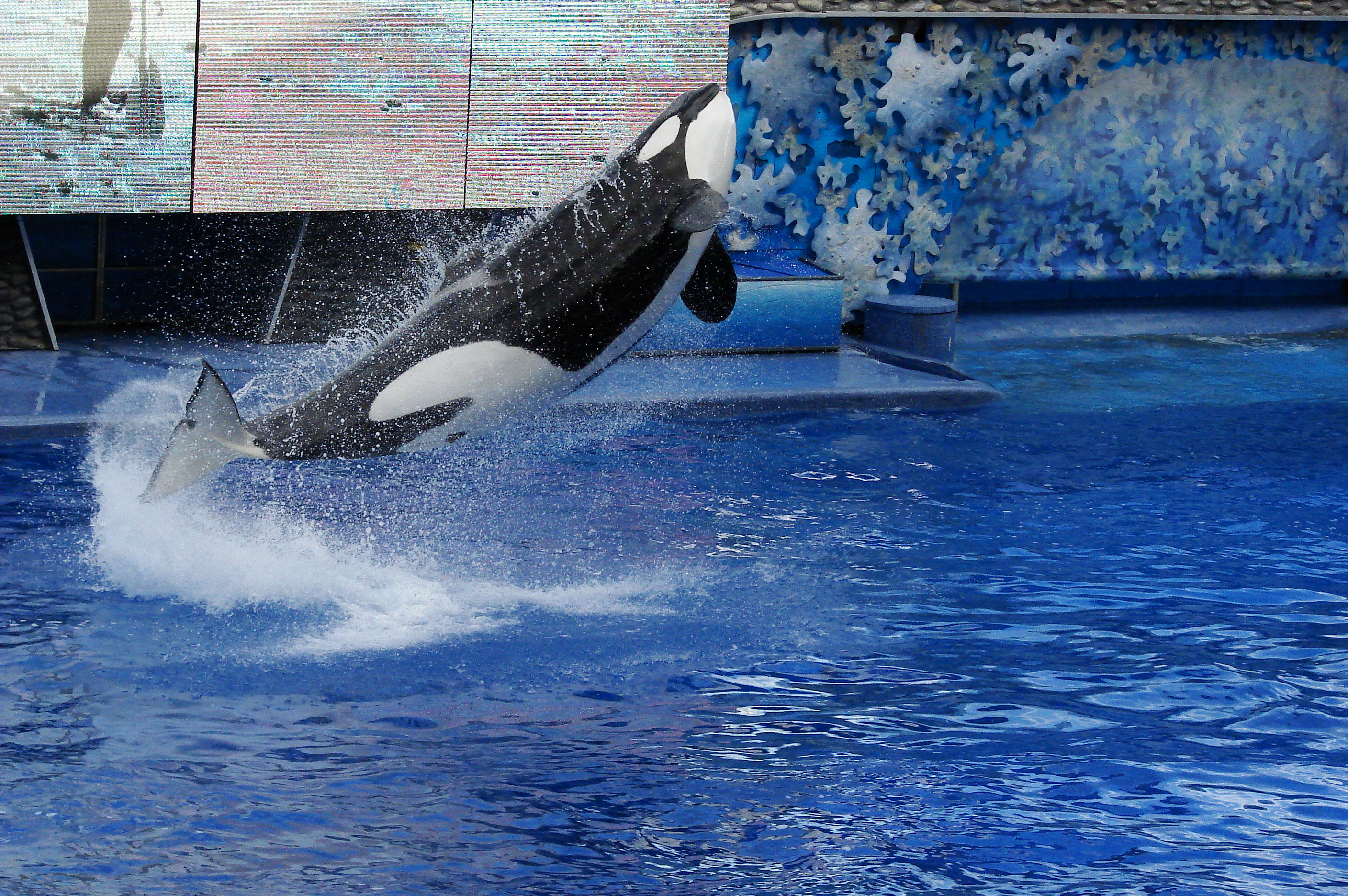 Killer whale Katina during a Shamu performance at SeaWorld Orlando.